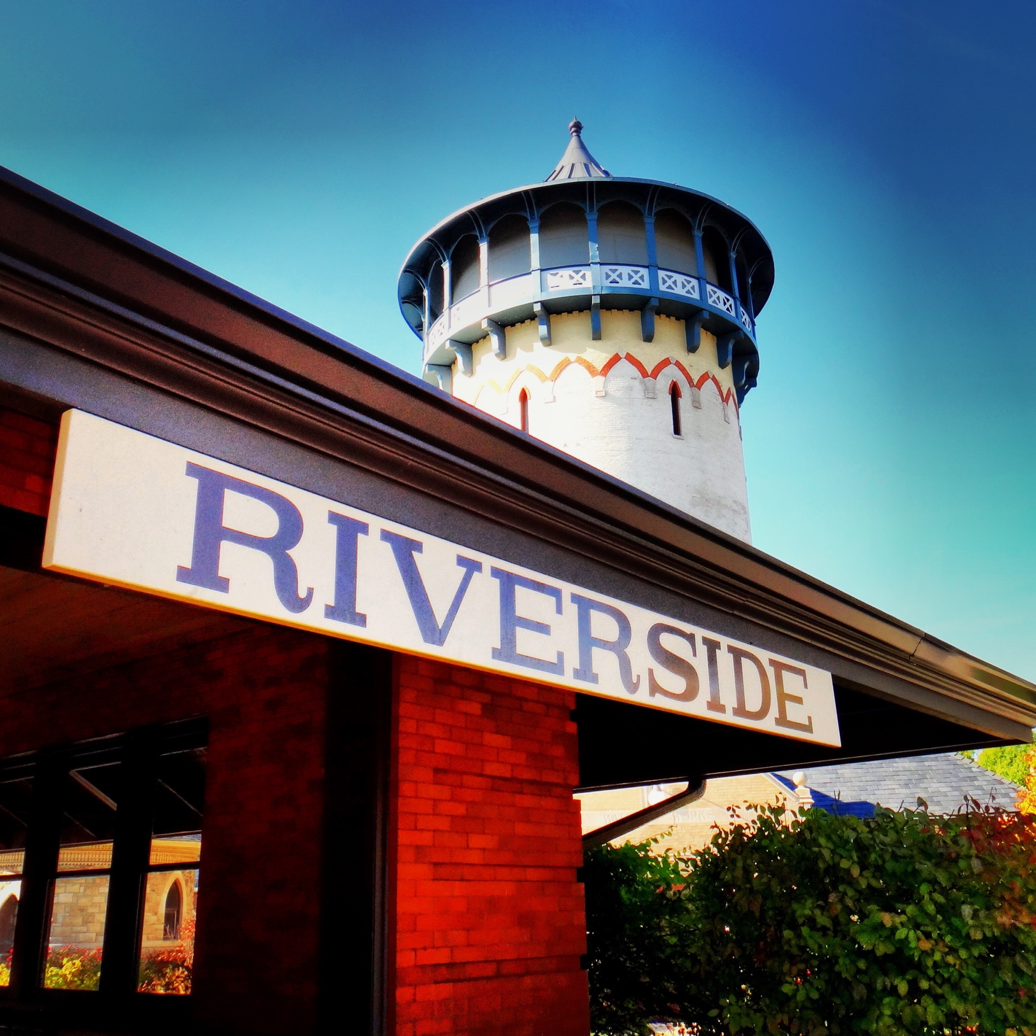 Riverside's historic water tower